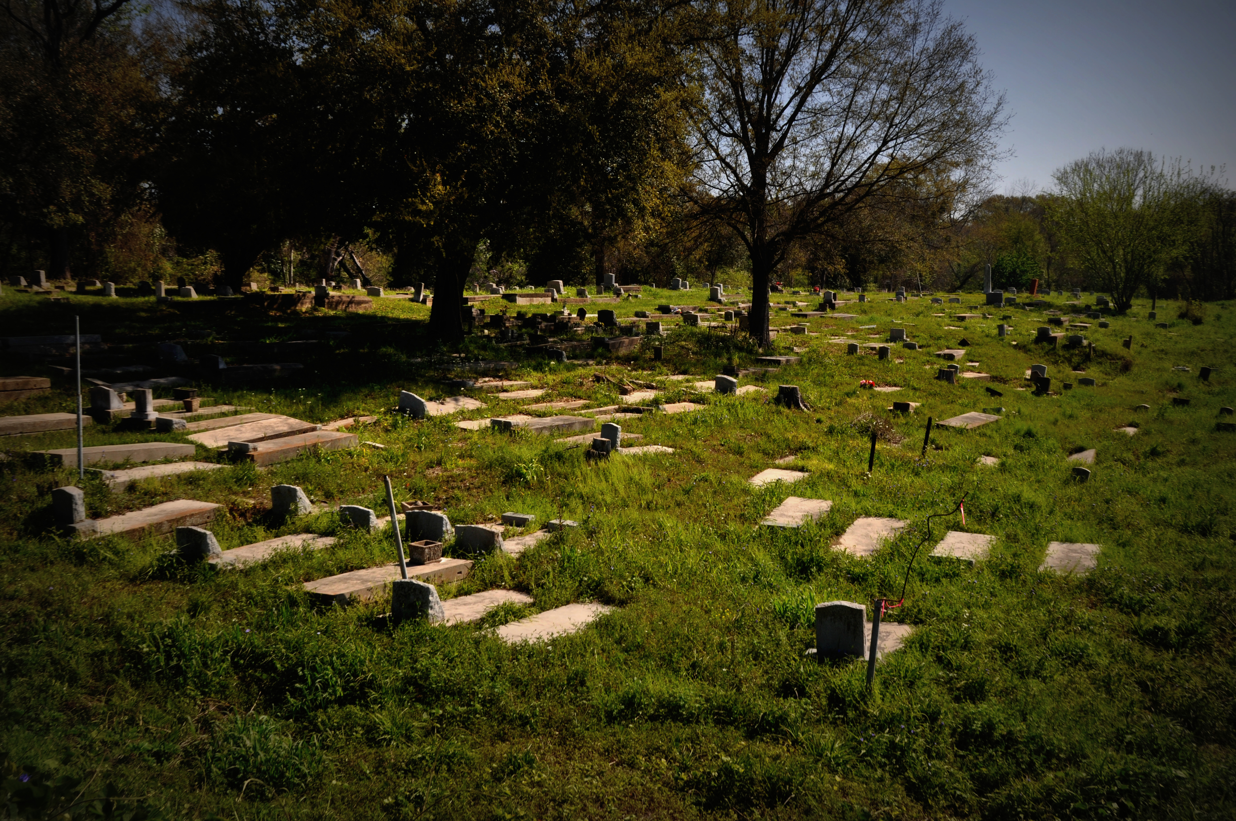 Africatown Historic District, Bounded by Jakes Ln., Paper Mill